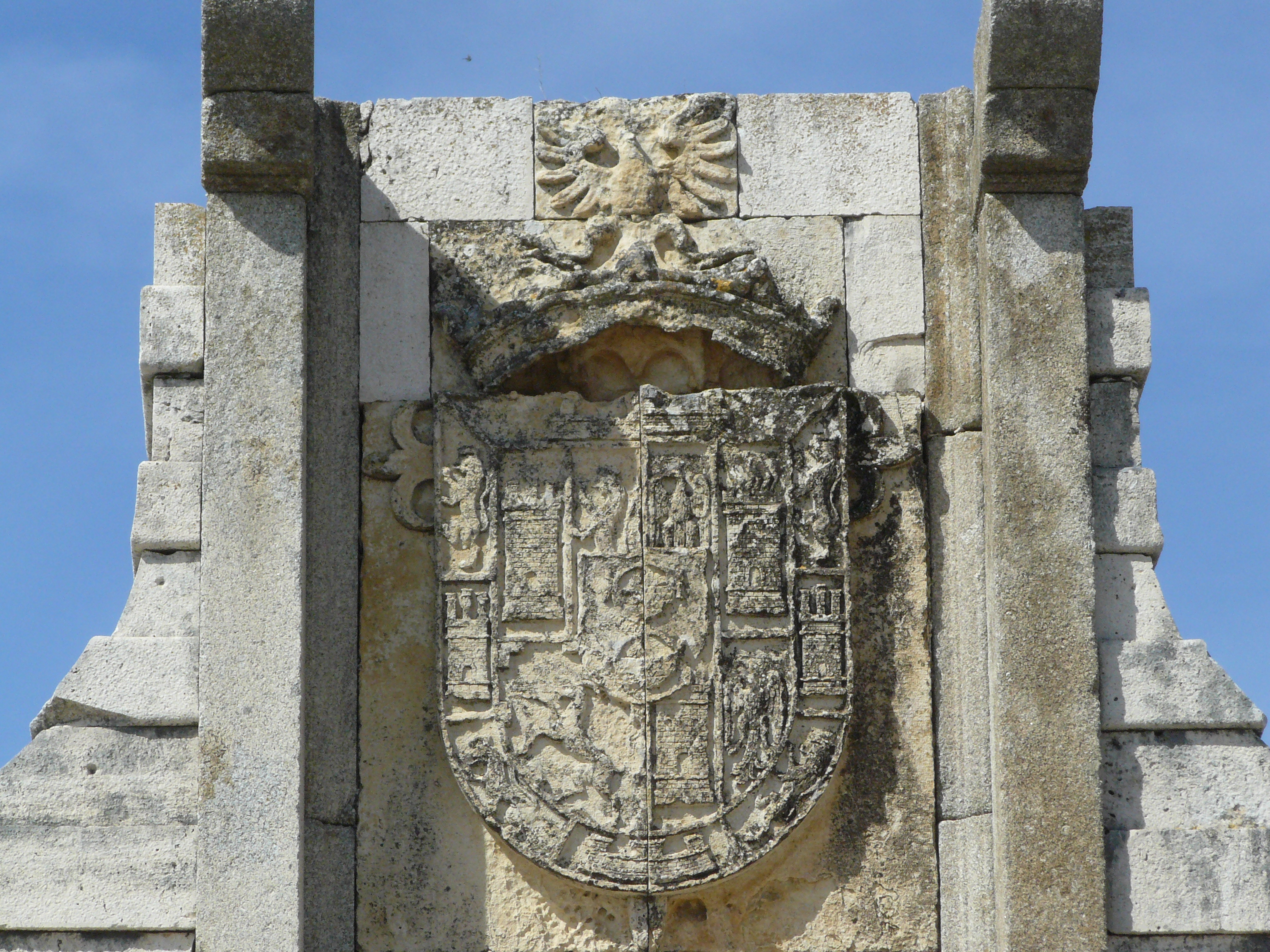 Coat of arms at the gate of the Castle at Chinchón (Madrid, Spain).